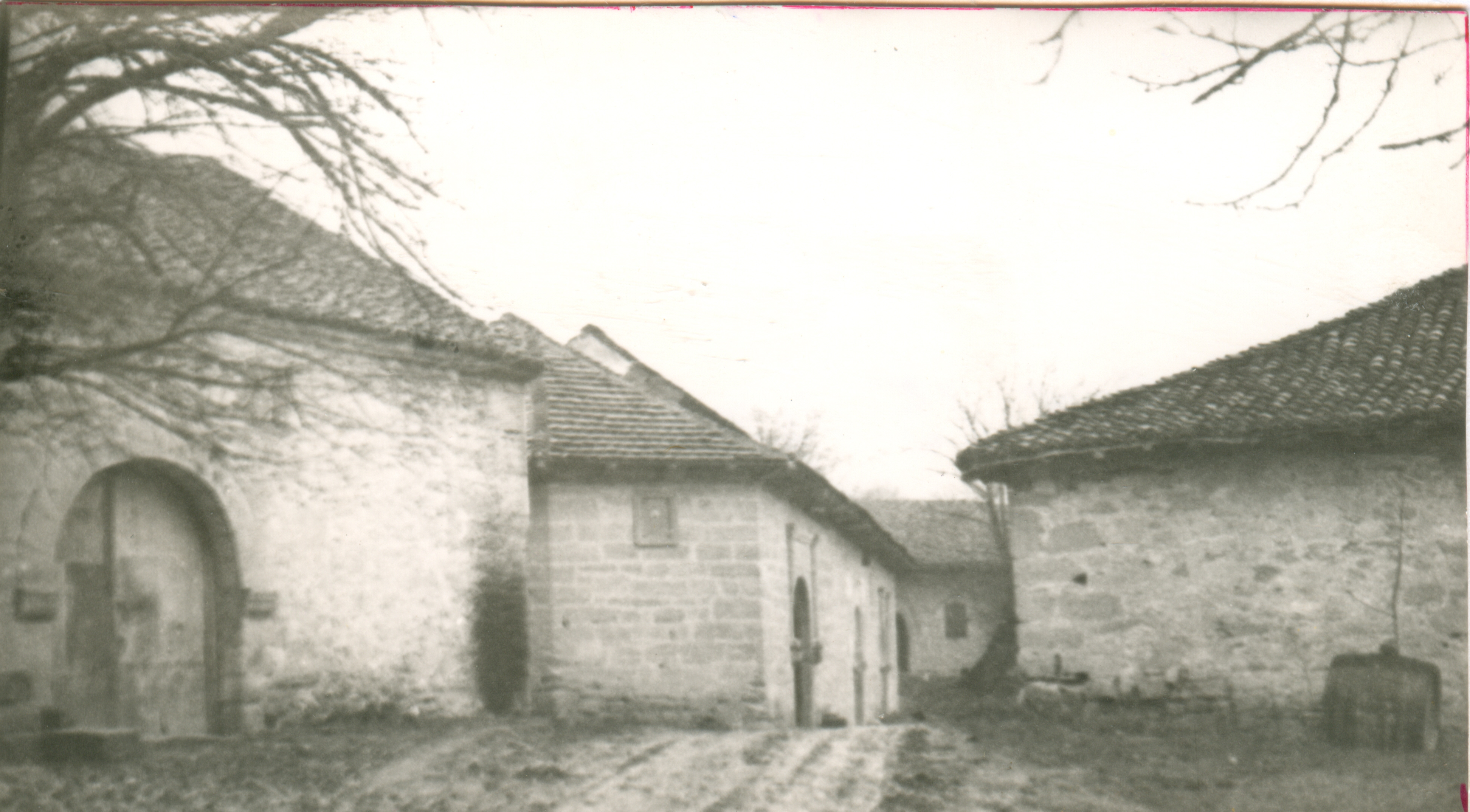 Rajacke pivnice, settlements consisting of wine cellars near Negotin Srpski (latinica): Rajačke pivnice, naselje vinskih podruma od kamena u opštini Negotin